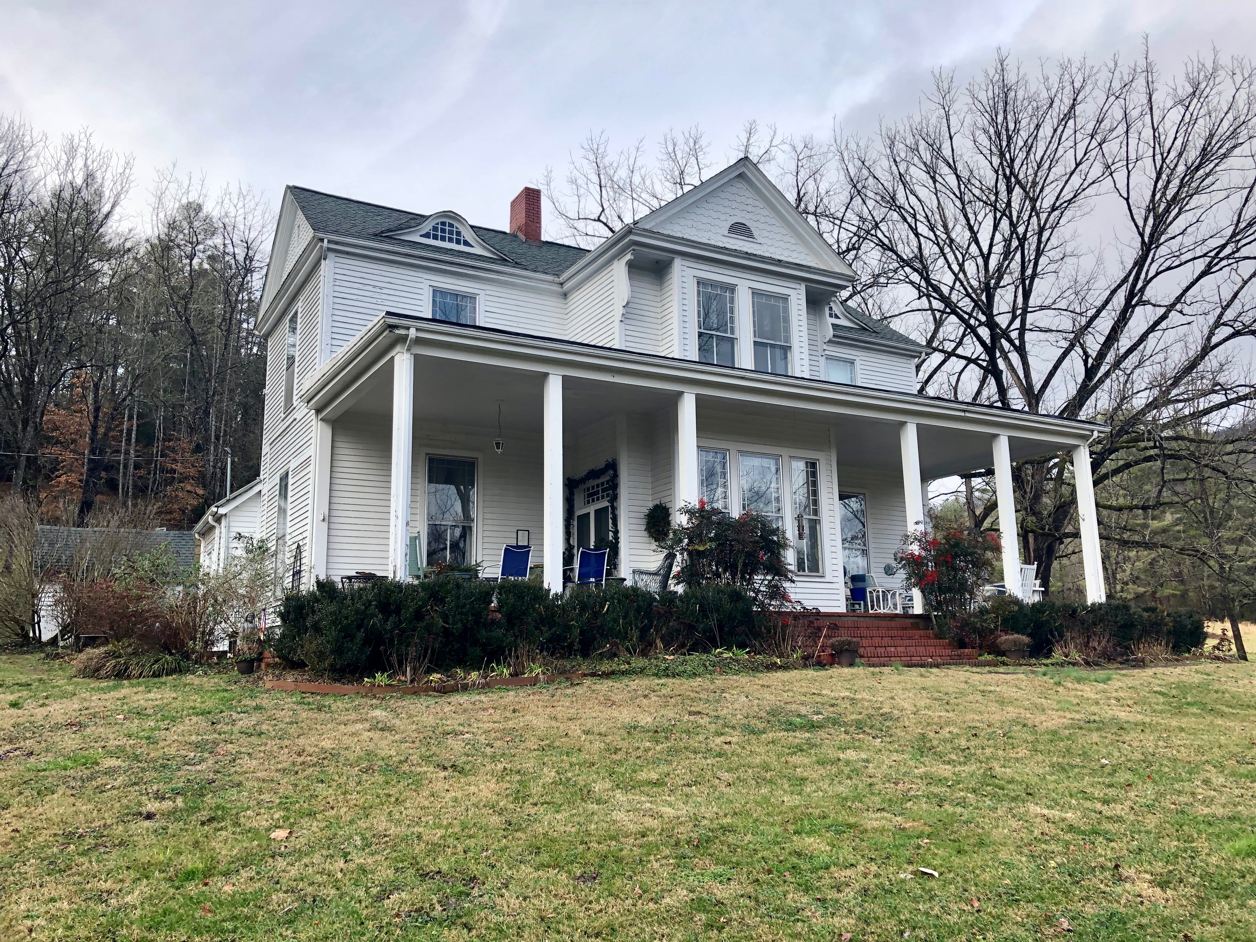 This is the old Lucius Coleman Hall House, located down an unassuming gravel side road atop a grassy knoll adjacent to the Tuckaseigee River just outside the town of Webster, North Carolina. The house was originally constructed circa 1850 as a “saddlebag” house with a gable roof and a centrally located brick chimney, which now makes up the rear ell of the present structure, making it one of the oldest remaining houses in Jackson County. In 1891-92, a large front addition was constructed by Lucius Coleman Hall, a two and a half story Late Victorian-style structure with Queen Anne-style elements that expanded the humble abode into one of the county’s grandest houses. The 1892 section of the house features a protruding central bay with five Queen Anne-style block windows, topped by a central gable that is accented by brackets on either side. Flanking the central bay are two eyebrow windows, as well as two additional windows on either side. The house received the addition of the current hipped-roof porch on the front around 1950, which ties the front of the structure together and looks out over the Tuckaseigee River below. Owing to how historically significant the house is for its age and level of craftsmanship and detail, it was listed on the National Register of Historic Places in 1990, and is one of six National Register-listed properties around the county’s former county seat town, out of a total of twenty in the county.